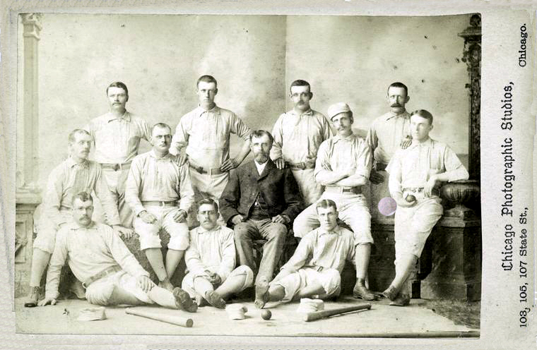 1882 Providence Grays baseball teamStanding, L-R: Paul Hines, Tom York, Charles Radbourn, Charlie ReilleyMiddle row, L-R: Jerry Denny, George Wright, Harry Wright, Joe Start, John Montgomery WardSeated on floor, L-R: Barney Gilligan, Sandy Nava, Jack Farrell